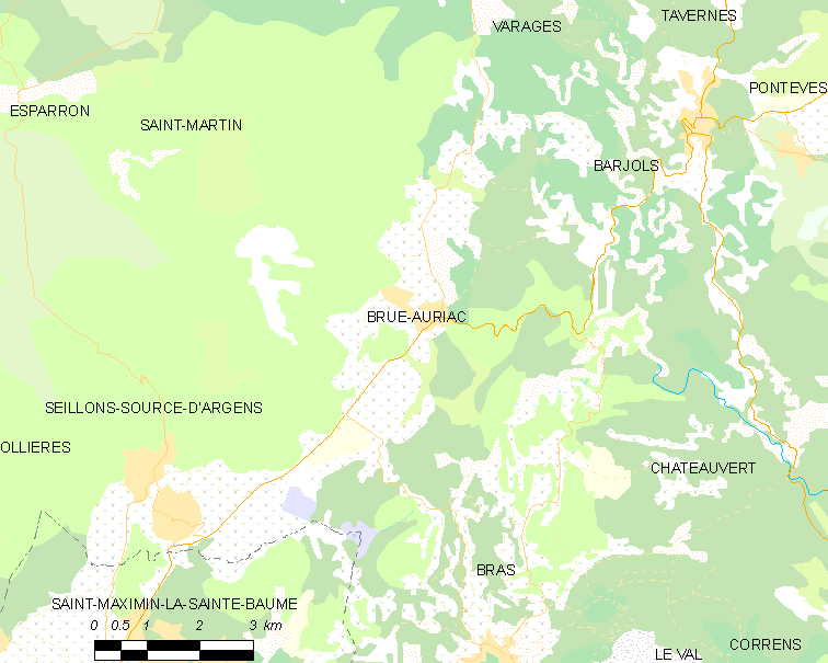 Map of French municipality Brue-Auriac